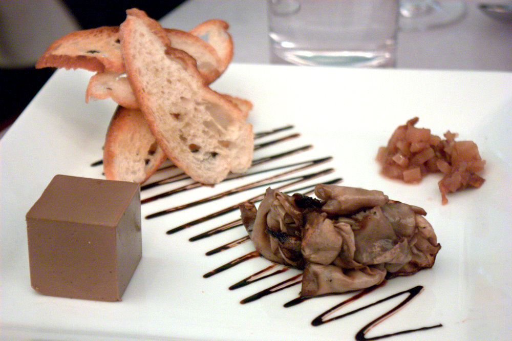 Get the full scoop